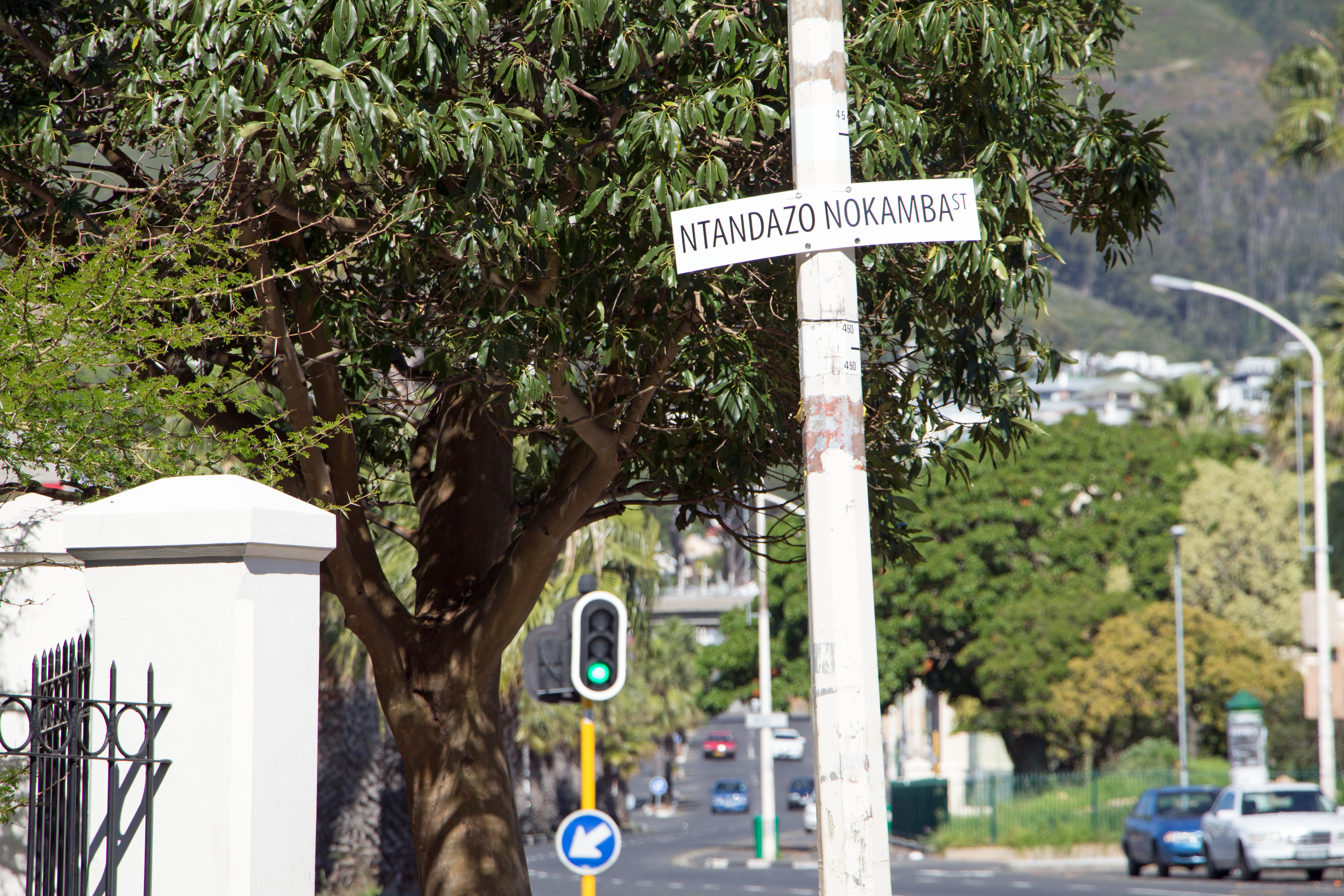 Protest art by anonymous artists remembering one of the casualties of the Marikana massacre, Ntandazo Nokamba, at the corner of Harrington and Roeland Streets, Cape Town, South Africa